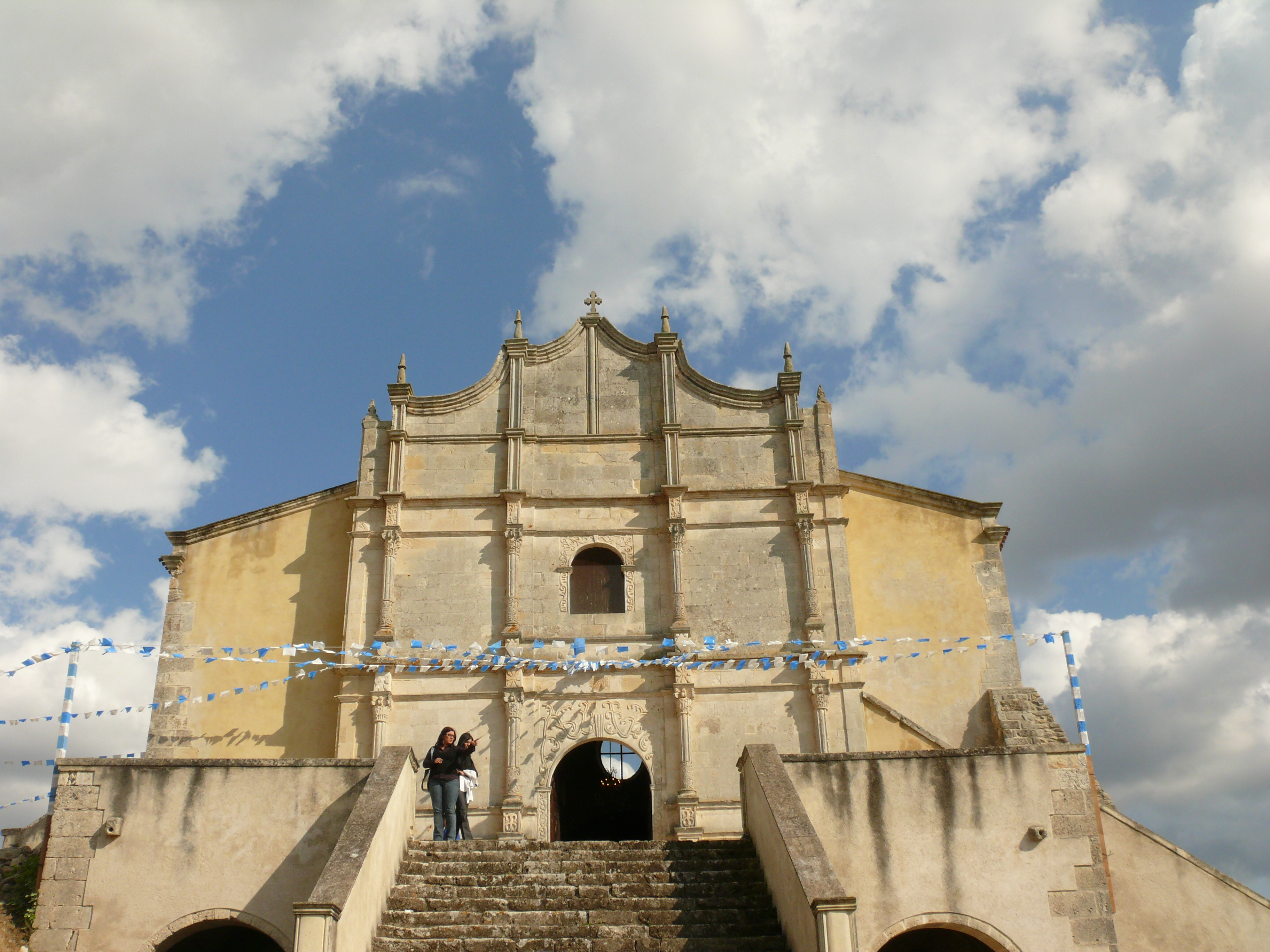 Church of Nostra Signora di Bonuighinu, Mara, province of Sassari, Sardinia